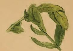 Stainton’s Natural History of the Tineina (1855–1873): Agonopterix furvella leaves of Dictamnus albus united by larva